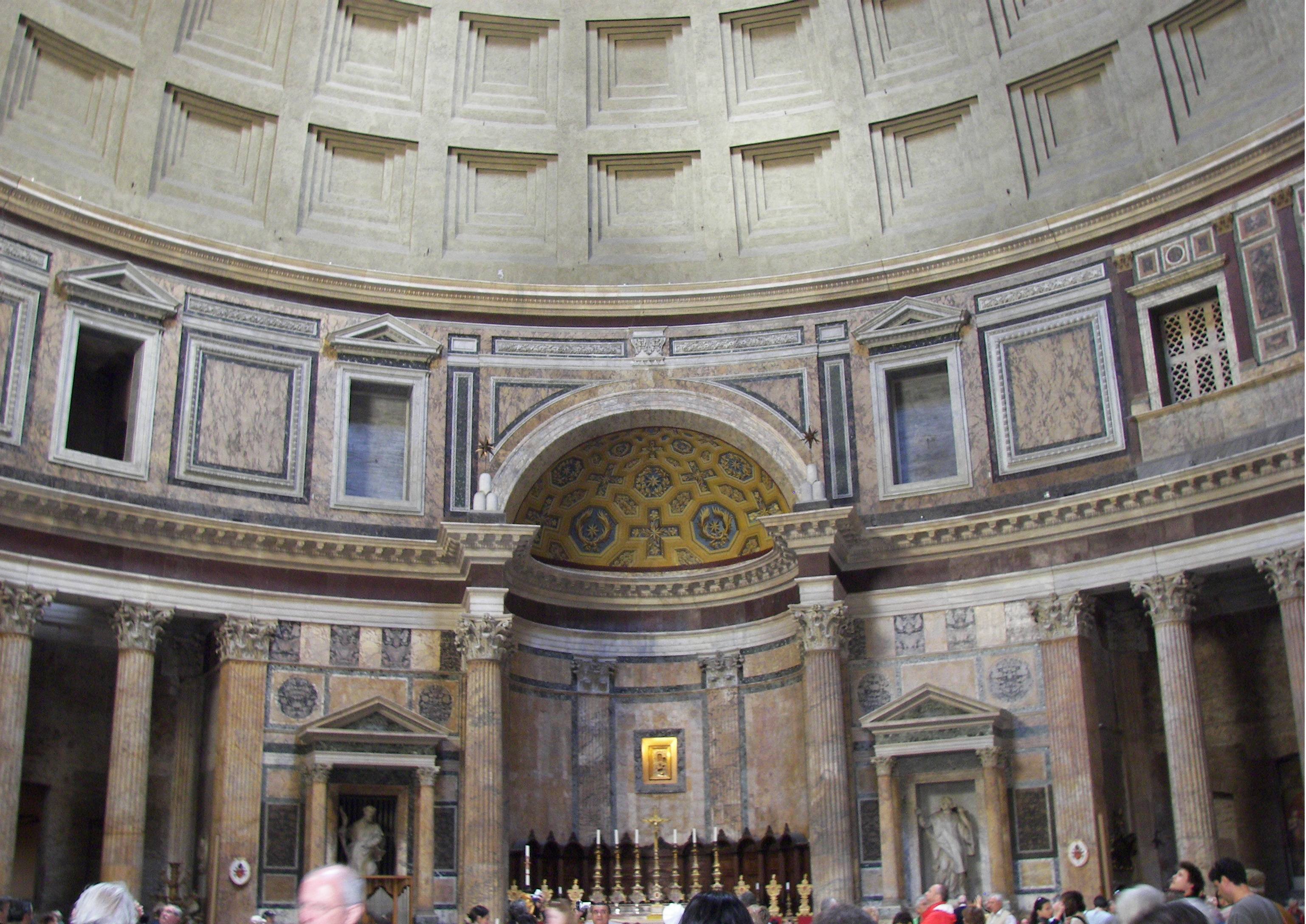 Interior of the Pantheon in Rome.